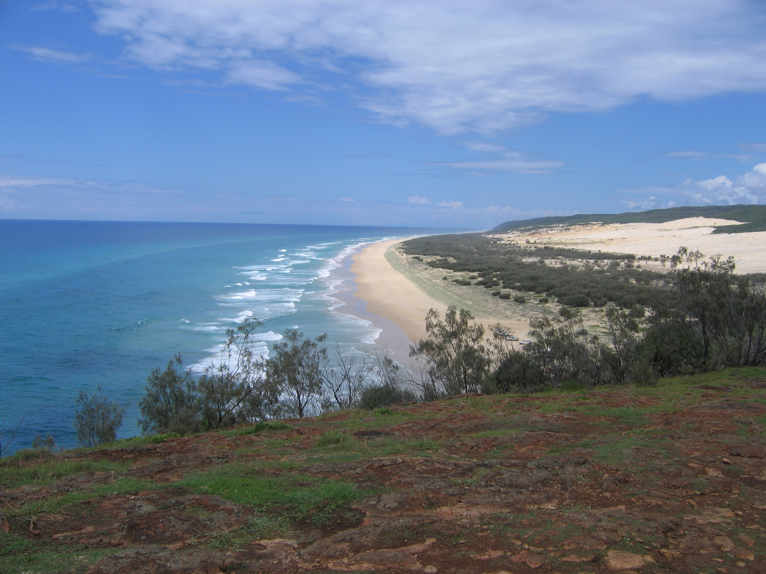 The Fraser Island beach, looking southwards from Indian Head